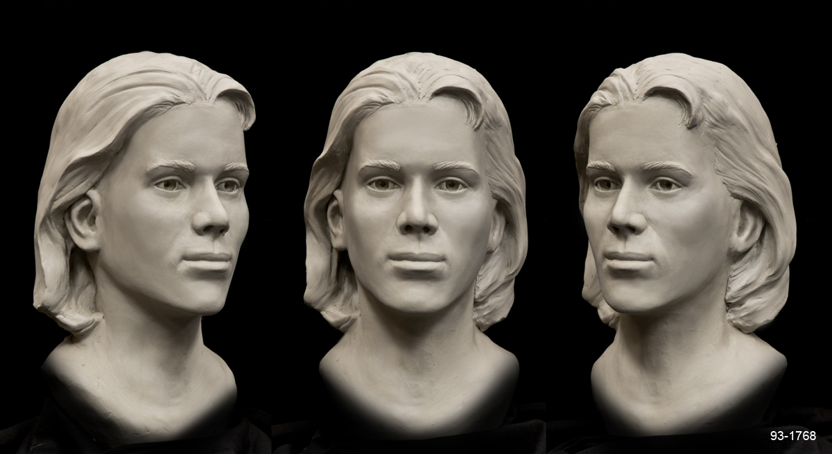 Reconstruction of an unidentified murder victim found in Nevada in 1993.